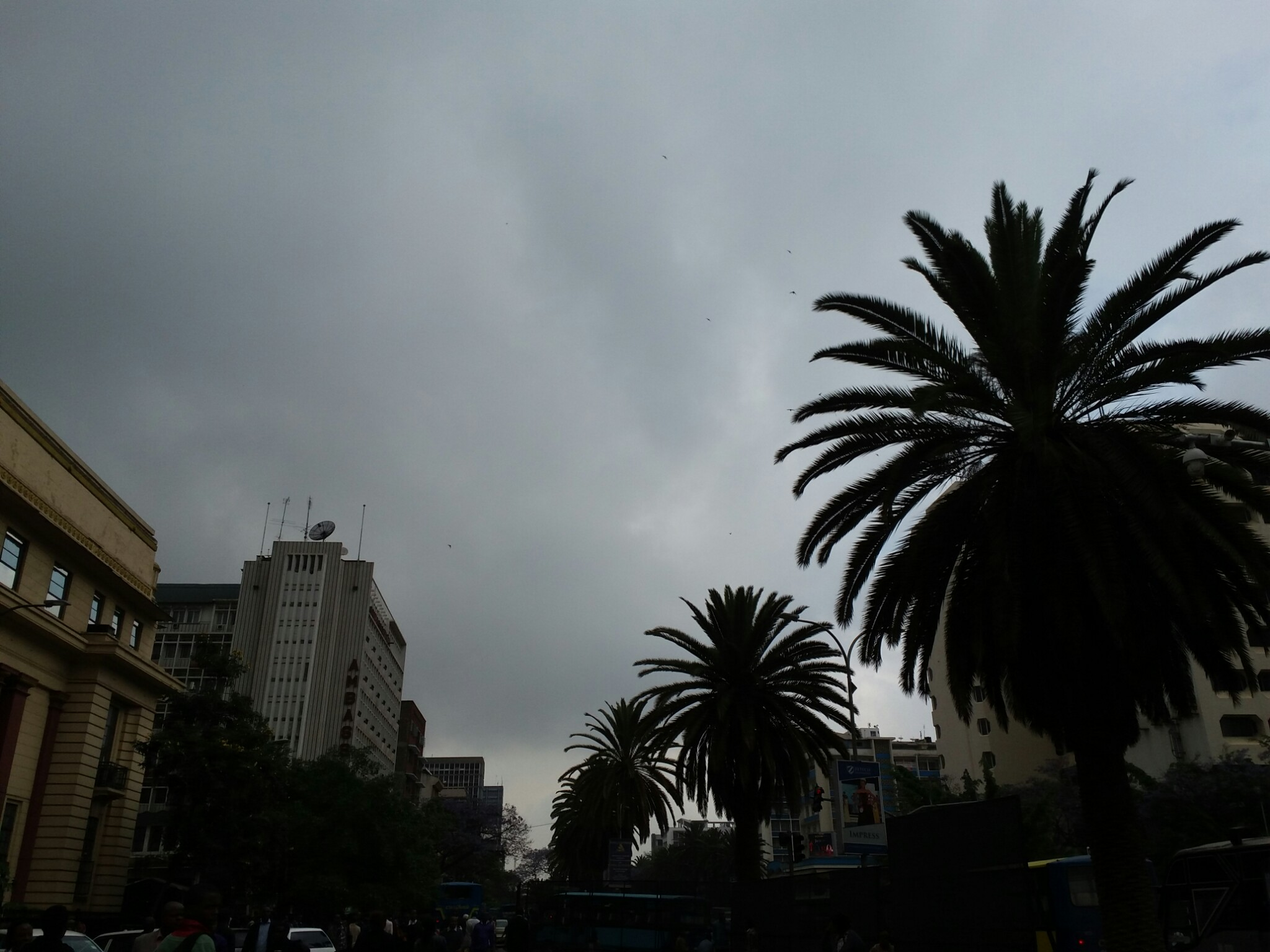 A shot of the National Archives in Nairobi This is an image of Cultural Fashion or Adornment from Kenya